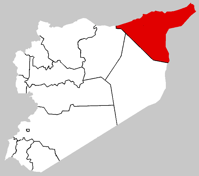 Map of Al-Hasakah governorate,Syria